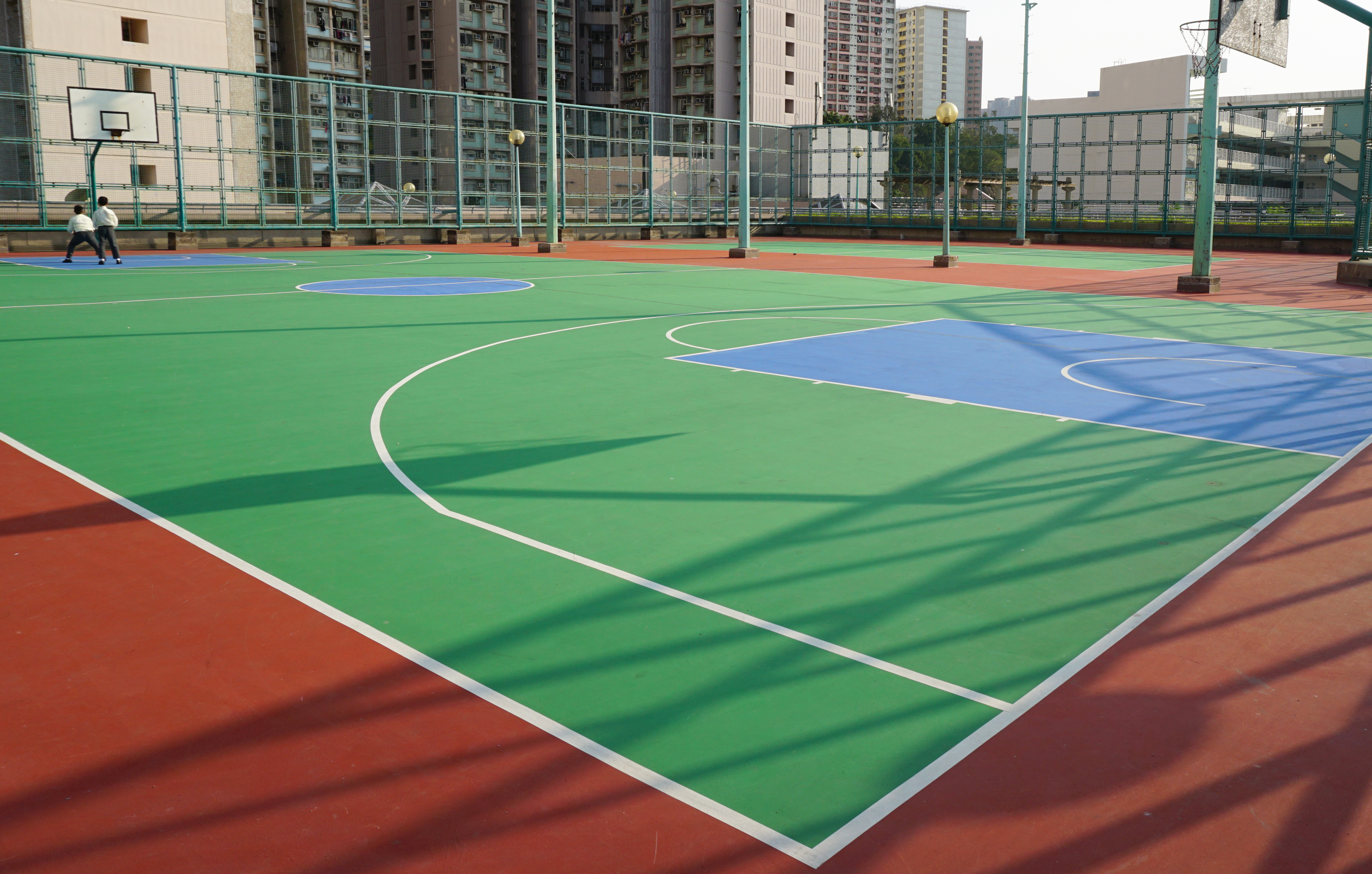 Shek Lei Estate in Kwai Chung, Hong Kong.